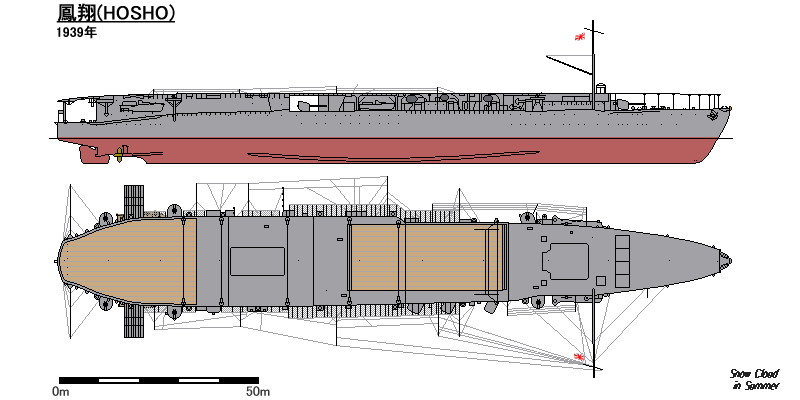 Line Drawing of Japanese Aircraft Carrier Hosho 1939.